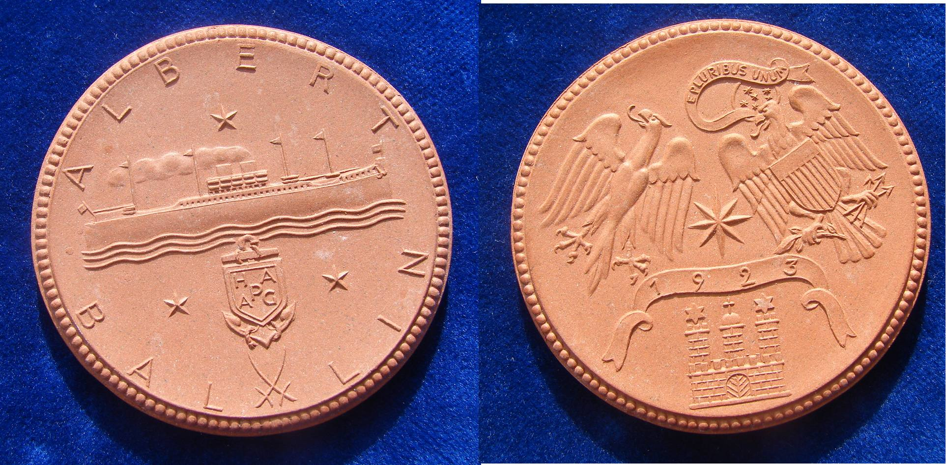 Red-brown porcelain. The steam ship Albert Ballin sailing r., below the arms of HAPAG, and the Meissen Swords. Surrounding : "ALBERT BALLIN" / The German and the American Eagles, the date in the centre, and below the arms of Hamburg. Scheuch 1685a. Made by the Porzellanmanufaktur Meissen.